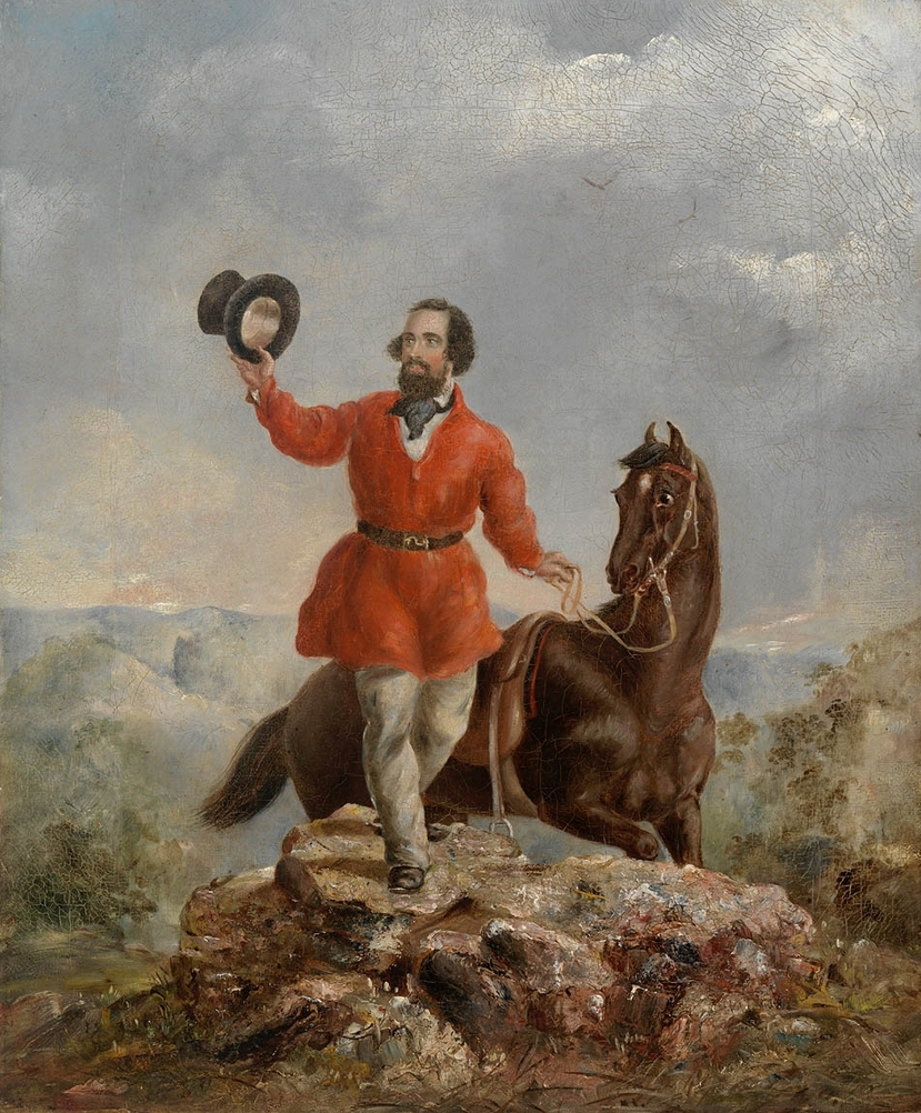 Mr E.H. Hargraves, the gold discoverer of Australia, Feb 12th 1851, returning the salute of the gold miners [5th] of the ensuing May, oil on canvas, 50.7 x 42.2 cm